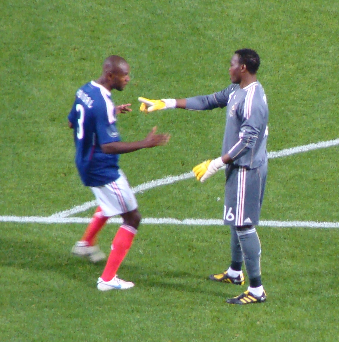 Eric Abidal & Steve Mandanda (France 2010)